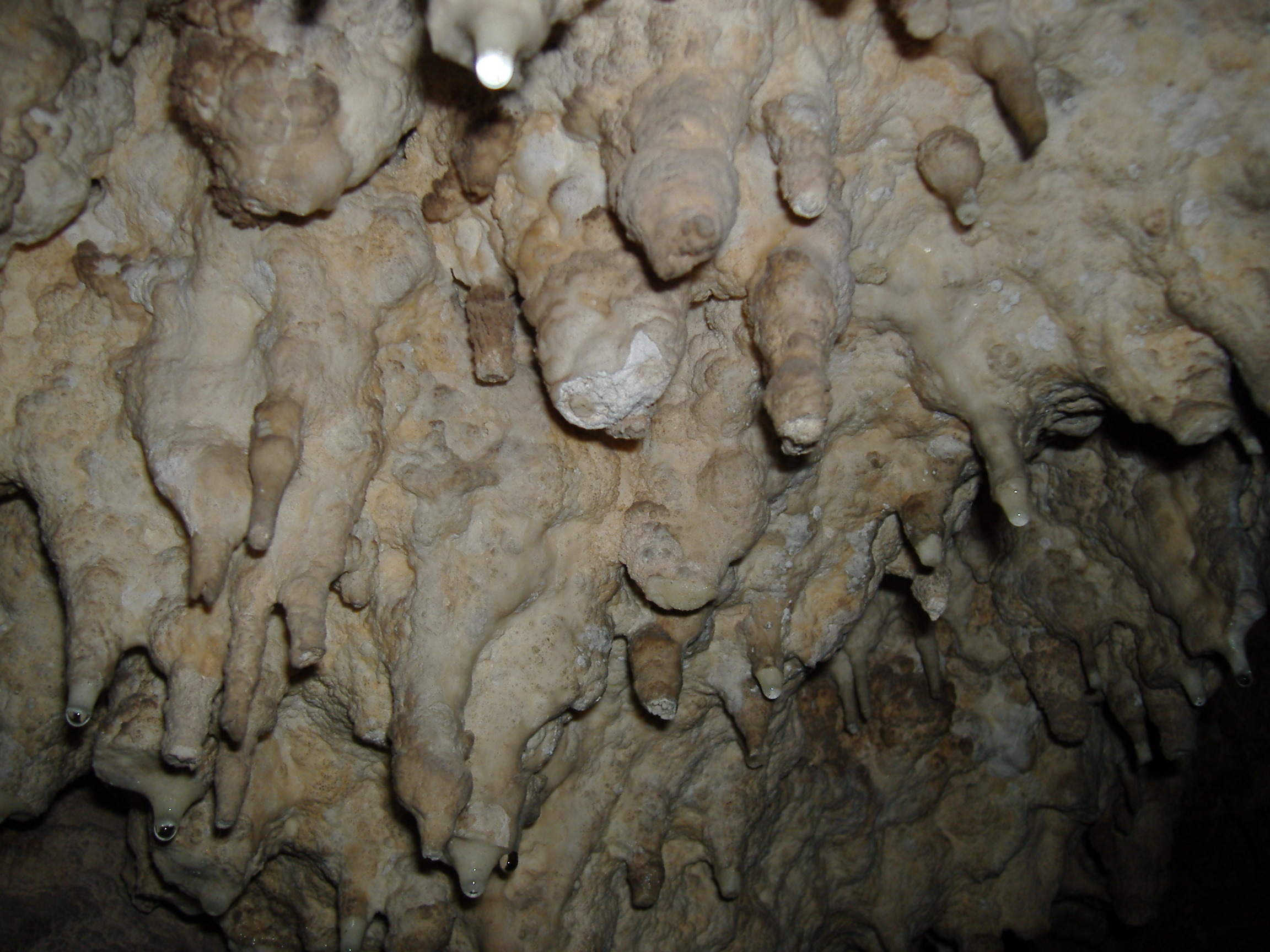 Broken stalactites in the Witches' Cave, Malargüe, Mendoza, Argentina.